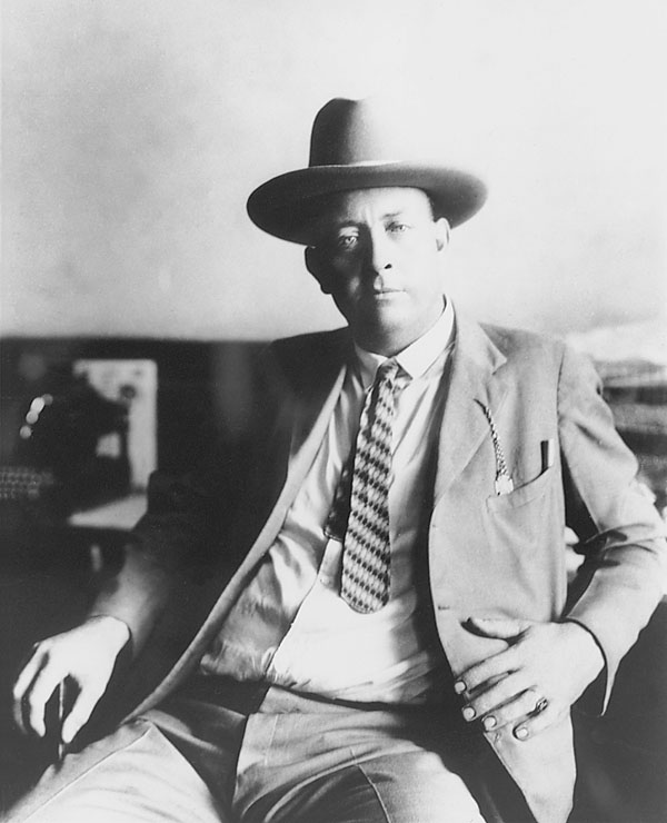 Captain Frank Hamer circa early 1920s